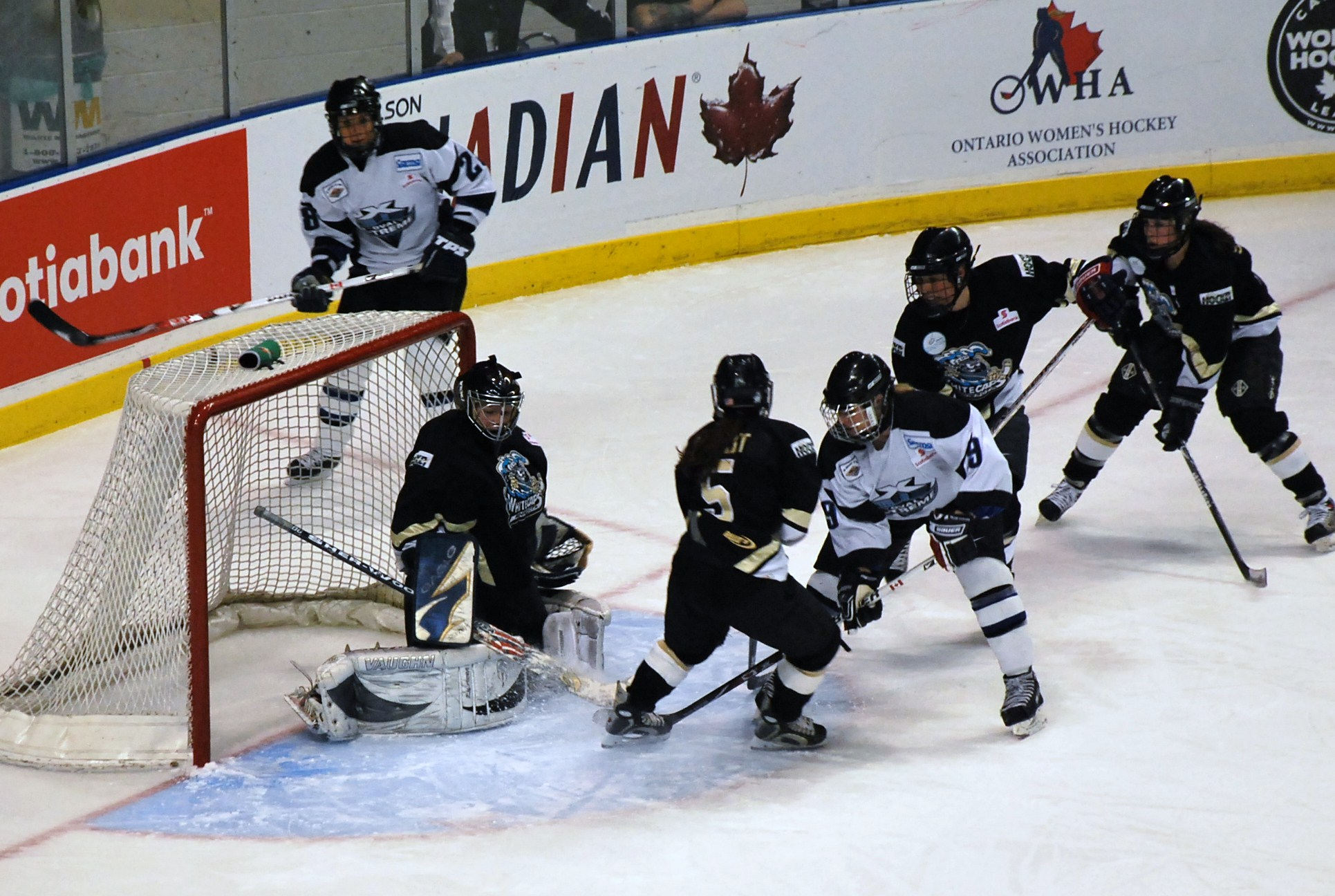 Calgary Oval X-Treme vs Minnesota Whitecaps, WWHL, 2009-03-20